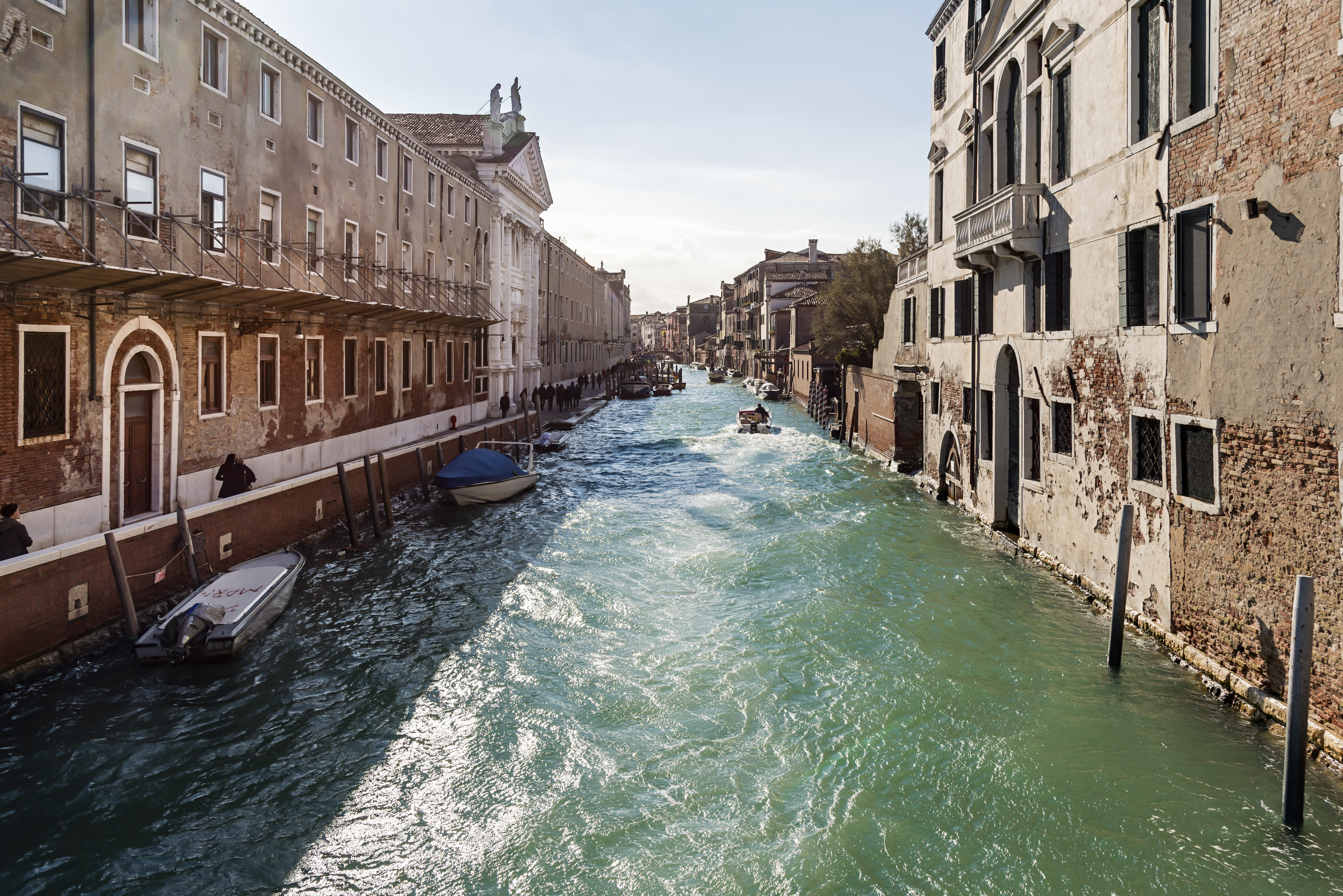 The Rio dei Mendicanti in Venice, seen from the Ponte dei Mendicanti towards the south.